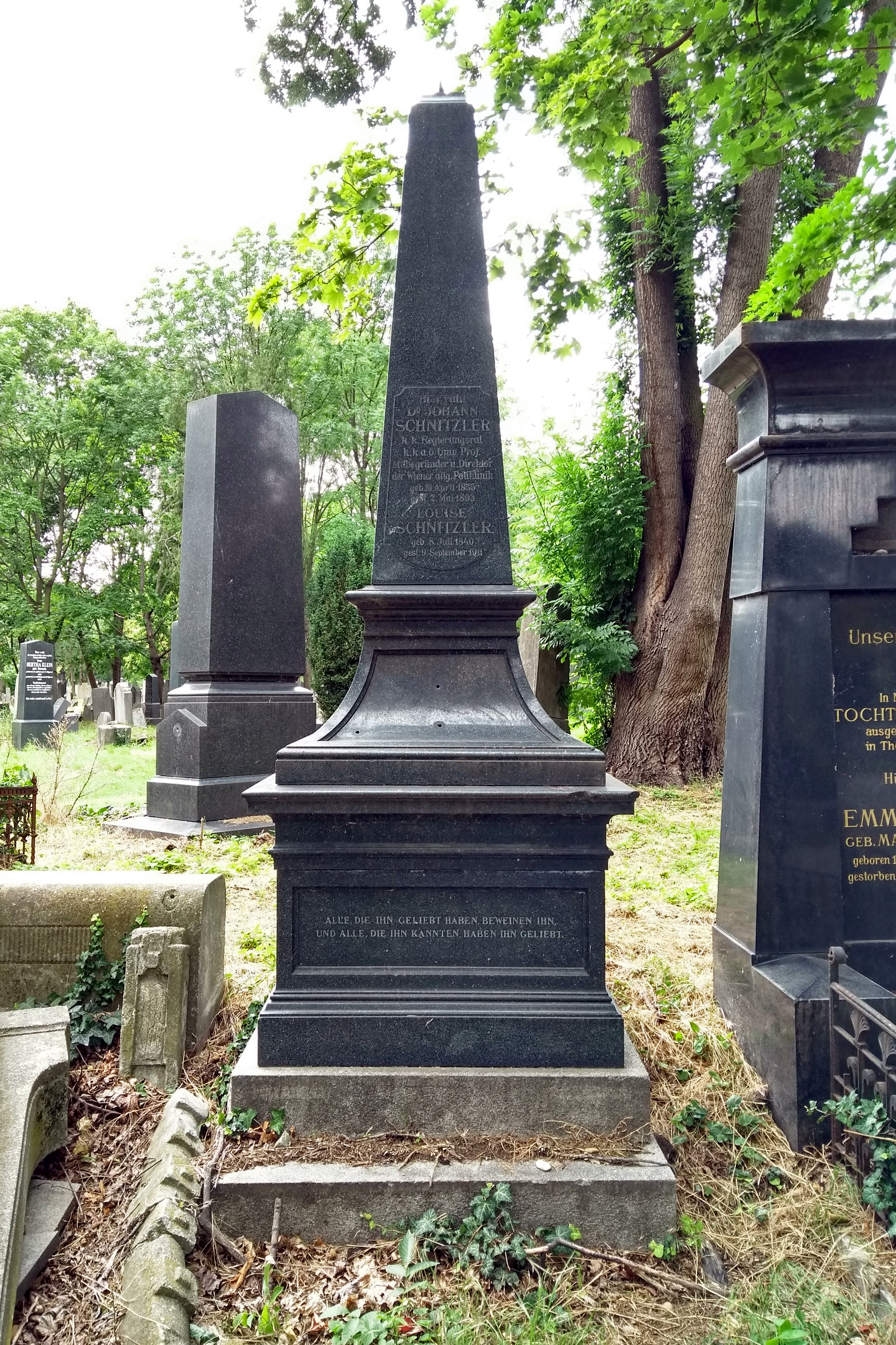 Grave of Johann Schnitzler (1835–1893), laryngologist, university professor, co-founder and director of the Wiener Allgemeine Poliklinik, and his wife Louise (née Markbreiter; 1840–1911) in the Old Jewish Part of the Vienna Central Cemetery (5b/35/83). Johann und Louise Schnitzler were the parents of Arthur Schnitzler.